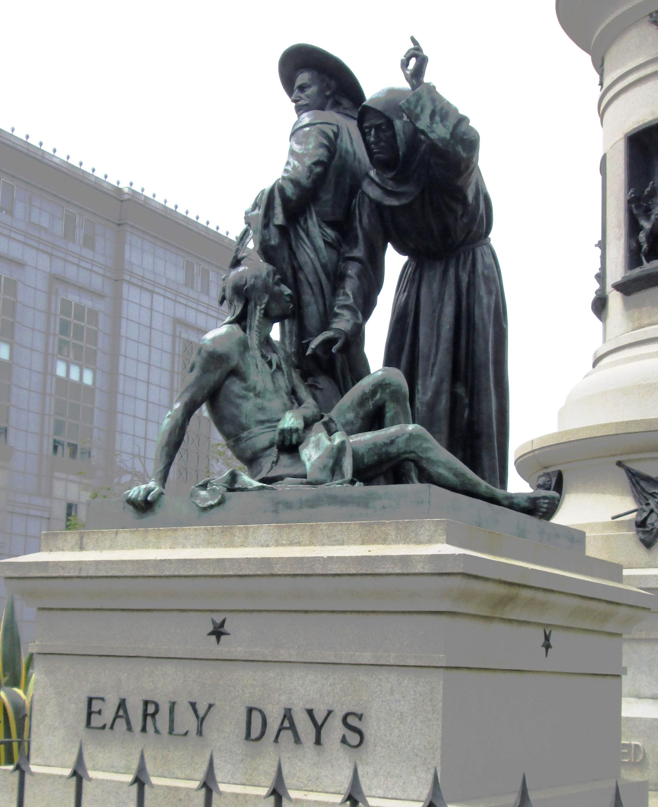 The Pioneer Monument is a granite monument supporting bronze figures and bas reliefs created by Frank Happersberger and financed by the estate of James Lick. It is located on Fulton Street between Hyde and Larkin Strets in the Civic Center of San Francisco, California. It was dedicated on November 29, 1894.